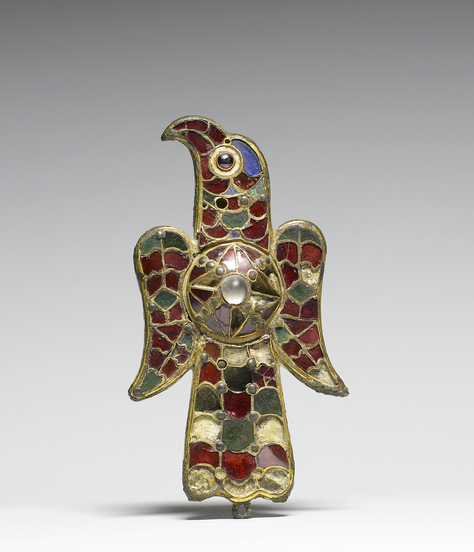 Walters 54.421 and 54.422 are a pair of superb eagle-shaped fibula found at Tierra de Barros (Badajoz, southwest Spain) made of sheet gold over bronze inlaid with garnets, amythysts, and colored glass. Pendants once dangled from the loops at the bottom. The eagle, a popular symbol during the Migration period adopted from Roman imperial insignia, was favored by the Goths. Similar eagle-shaped fibulae have been excavated from Visigothic graves in Spain and Ostrogothic graves in northern Italy, but this pair is one of the finest. These fibula would have been worn at the same time to fasten a cloak at either shoulder.